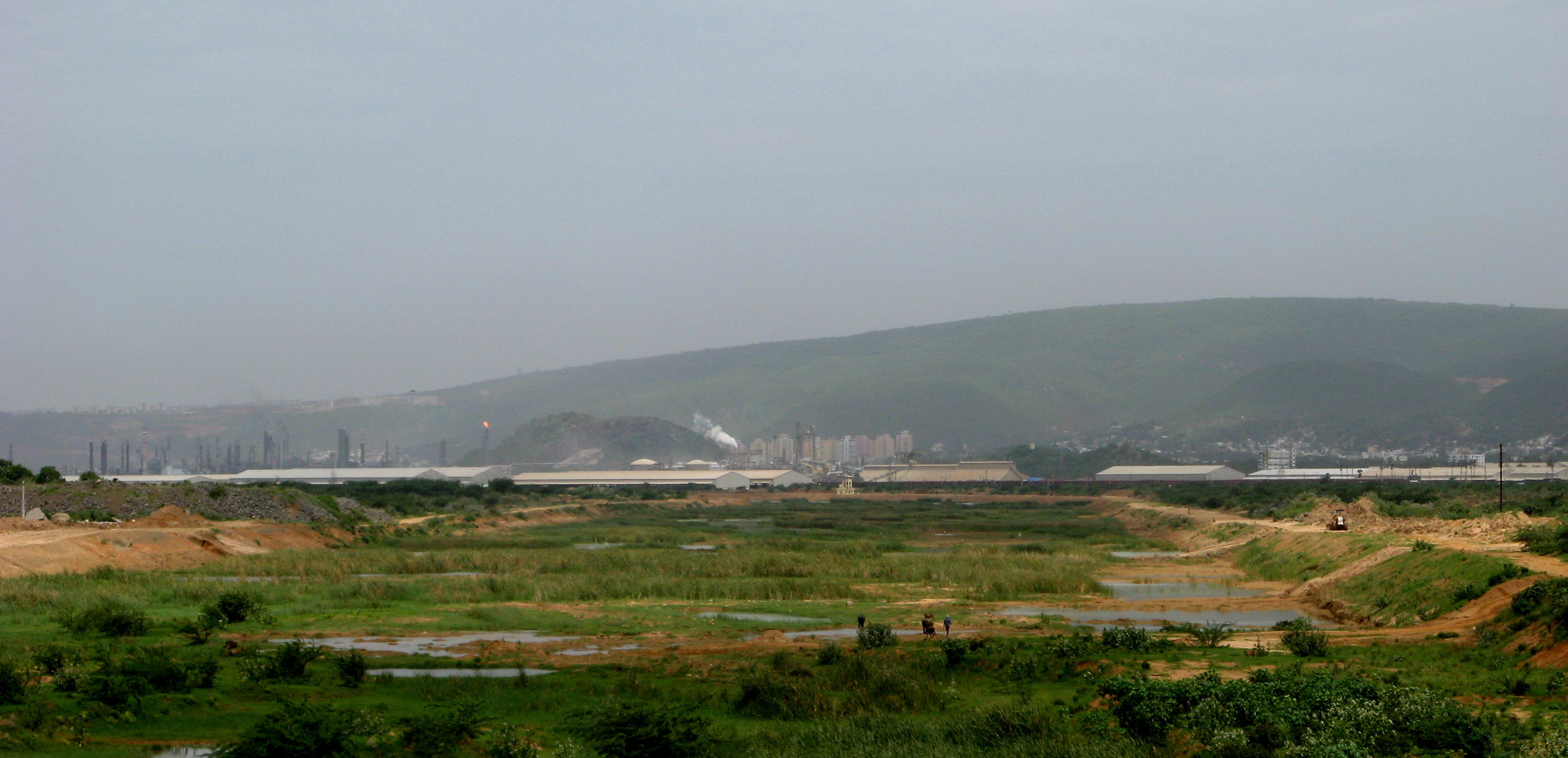 Meghadri gedda river beside Visakhapatnam Airport